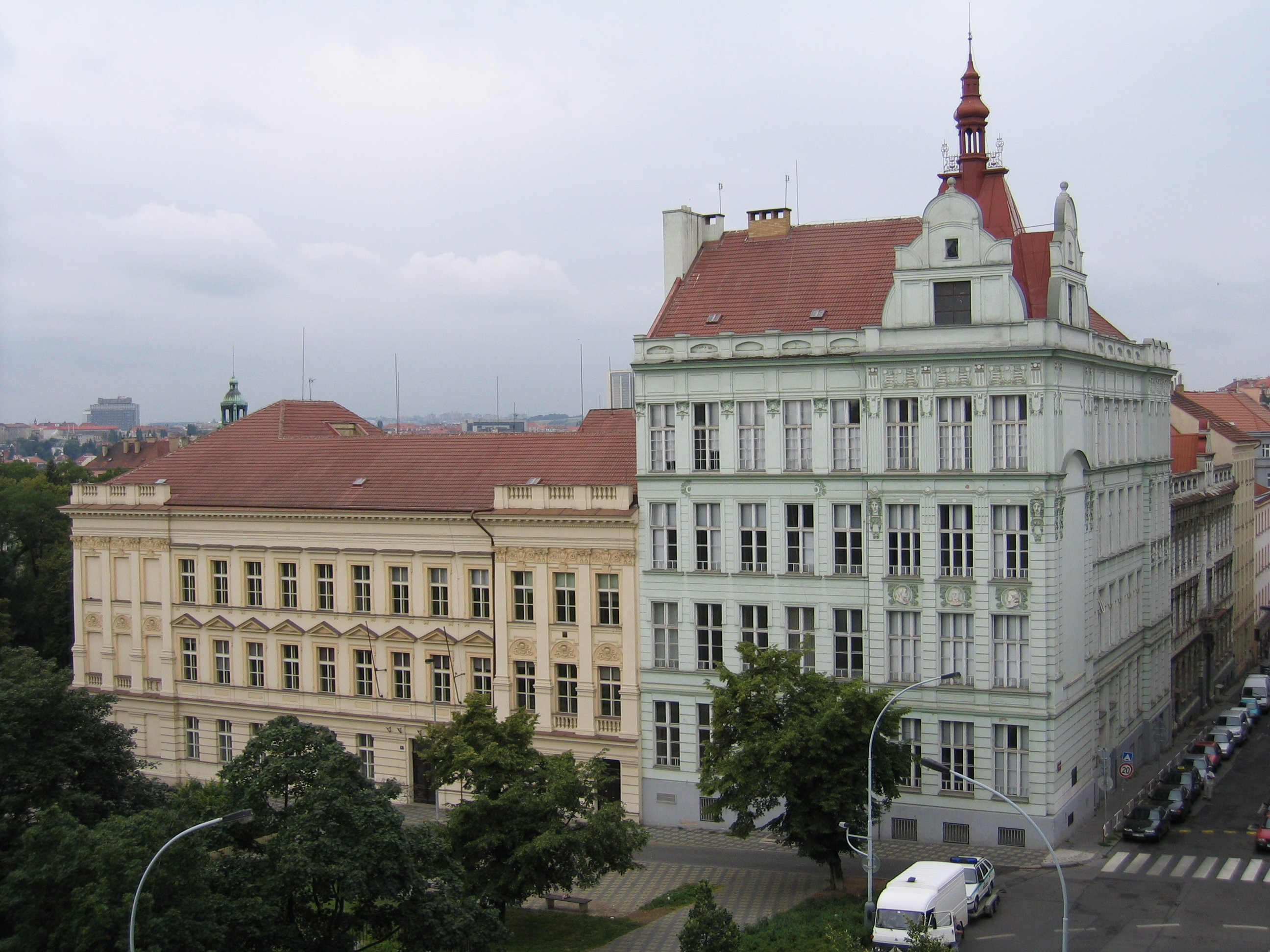 Prague-Vršovice, main building of Vysoká škola finanční a správní o. p. s.